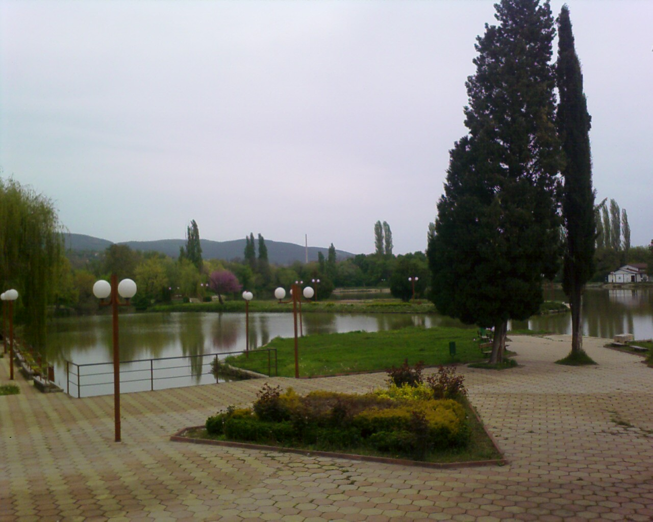 Zagorka lake in Zagorka park, Stara Zagora, Bulgaria